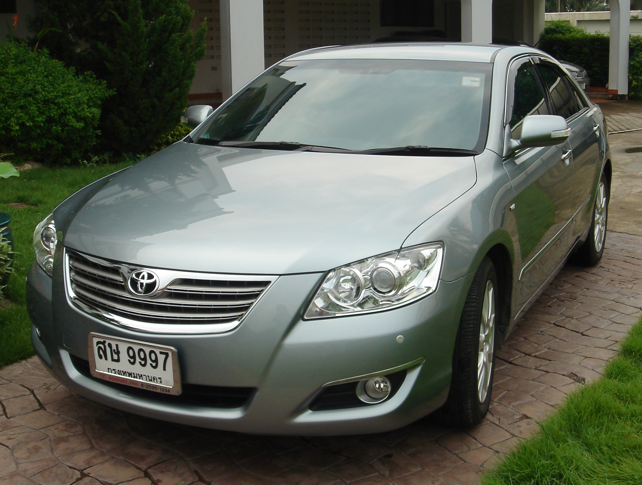 2007 Toyota Camry (ACV40R-JEAGKT) 2.4 V.